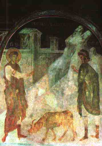 Damiane. "The raising of the Bull by St. George". A fresco from Ubisi, Georgia